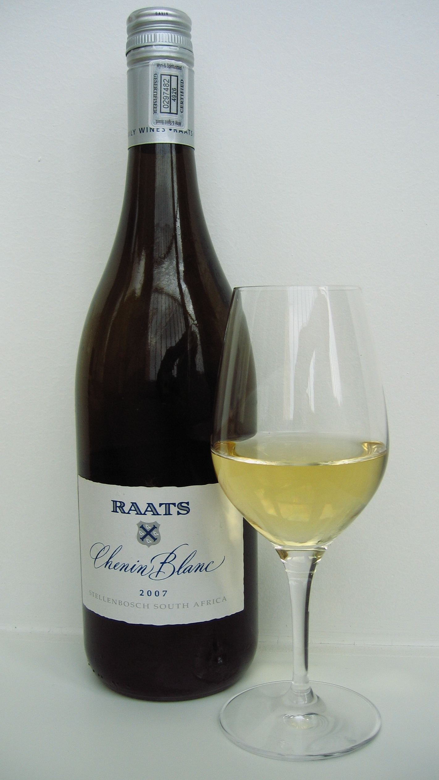 Raats Chenin Blanc 2007, a white wine from Stellenbosch, South Africa